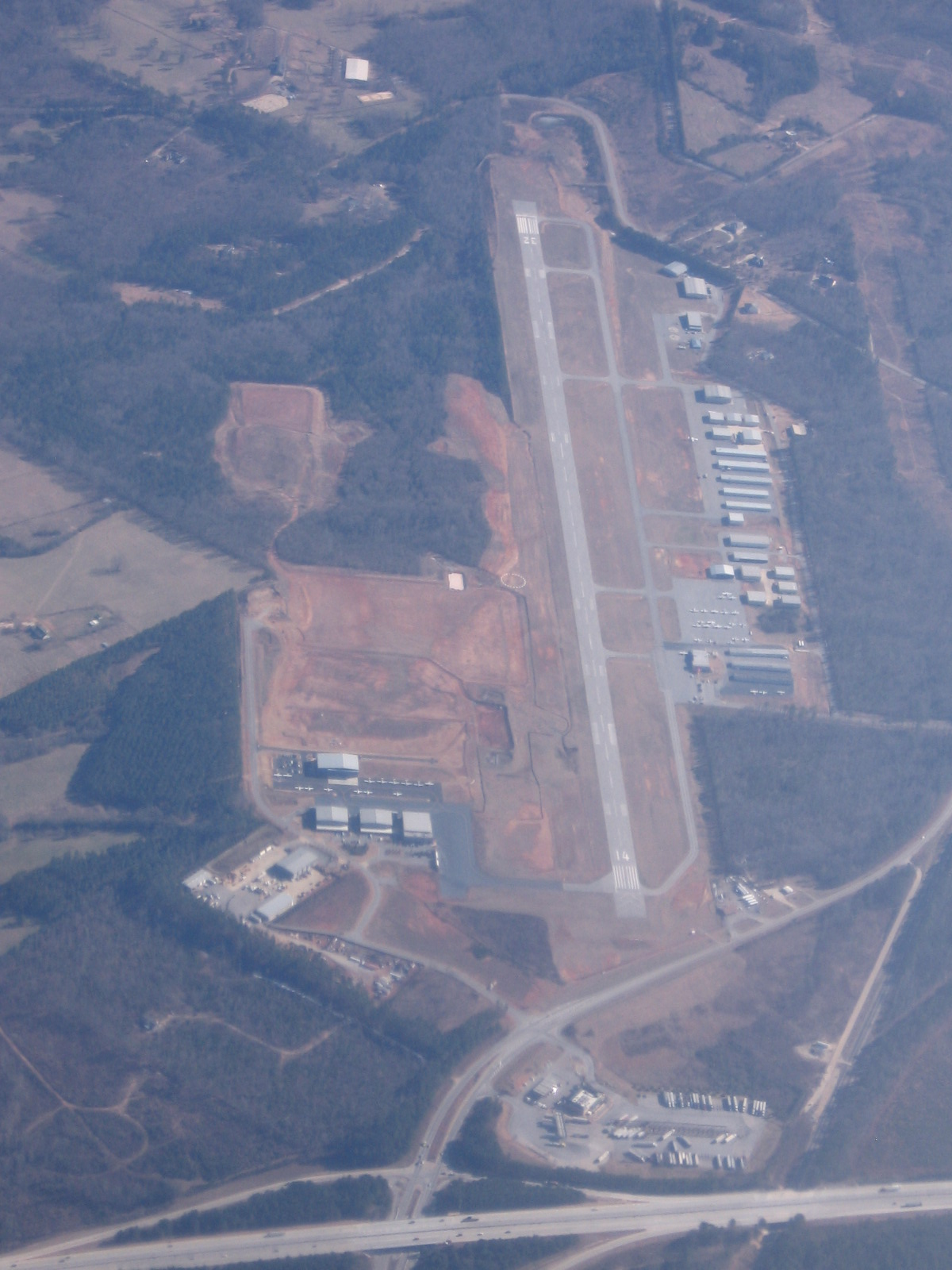 Newnan Coweta County Airport, GA and I-85 viewed approaching Atlanta from Birmingham, Alabama.